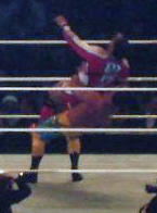 Chris Benoit hits a German Suplex on MVP at WrestleMania 23. (Cropped from flickr)